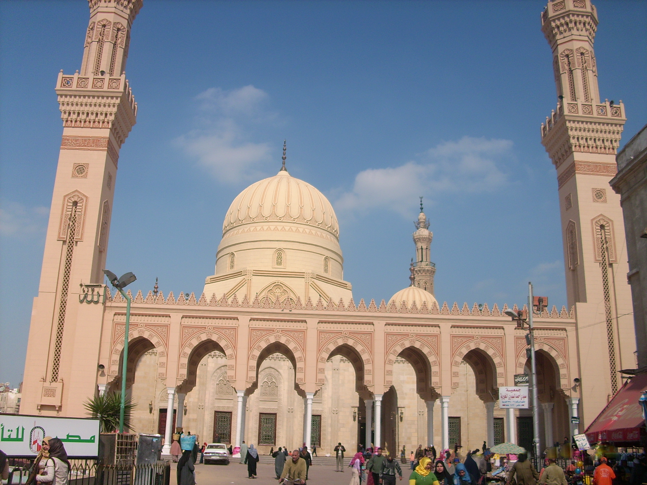 El-Sayed el-Badawy Mosque - Tanta - Egypt2